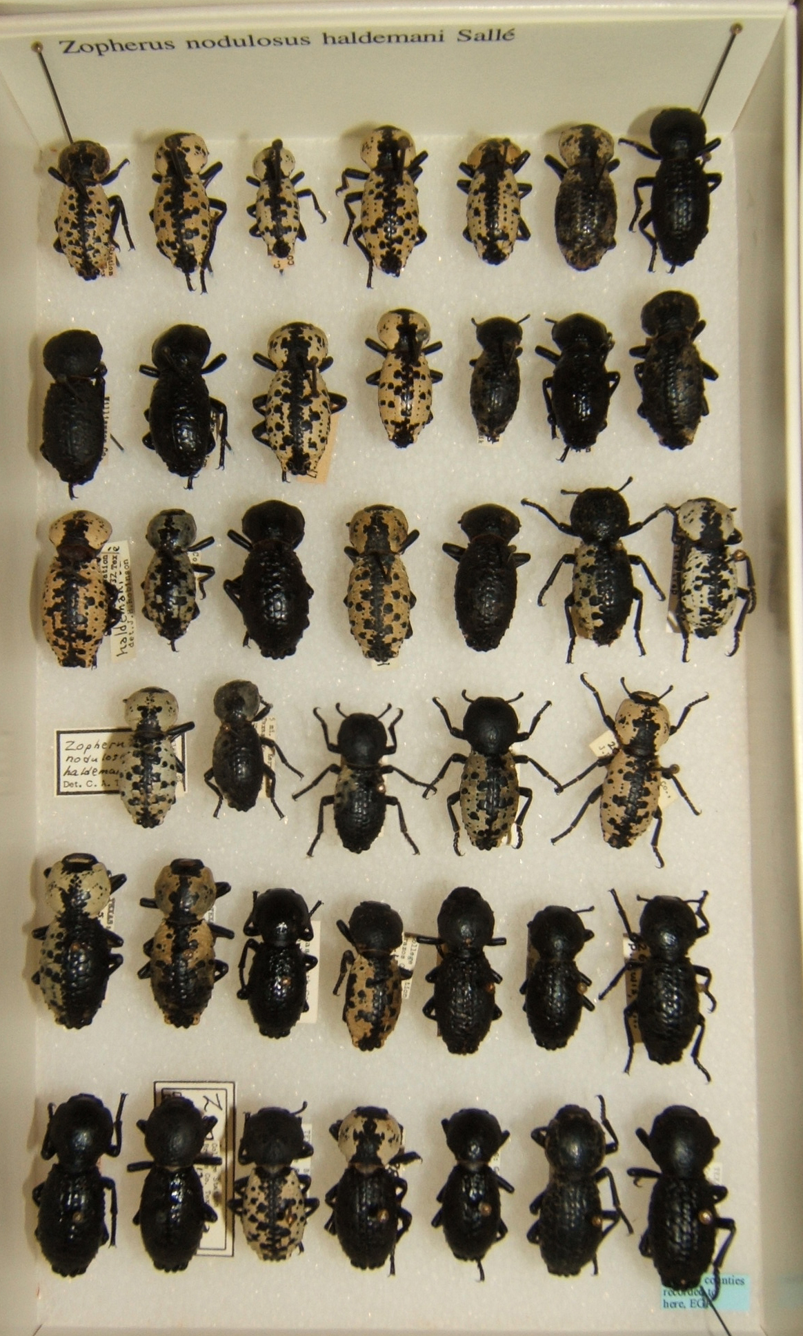 Zopherus nodulosus haldemani adult variation taken by Shawn Hanrahan at the Texas A&M University Insect Collection in College Station, Texas.